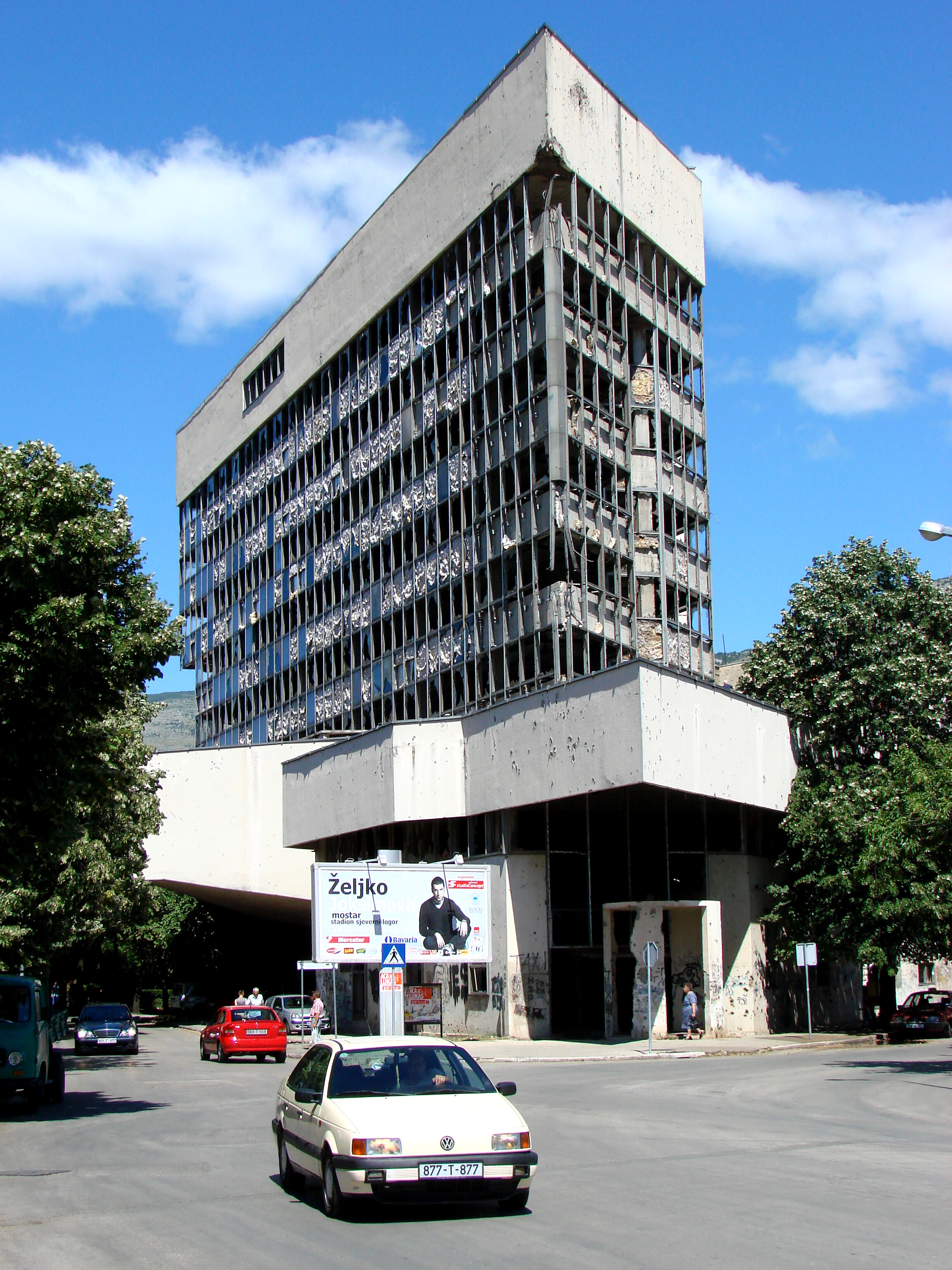 War-ruined building in Mostar, Bosnia and Herzegovina. July 2007.